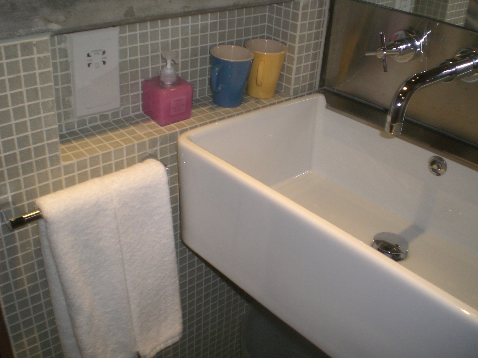 Y-Loft, Hong Kong, Centre for Youth Development (Youth Square)